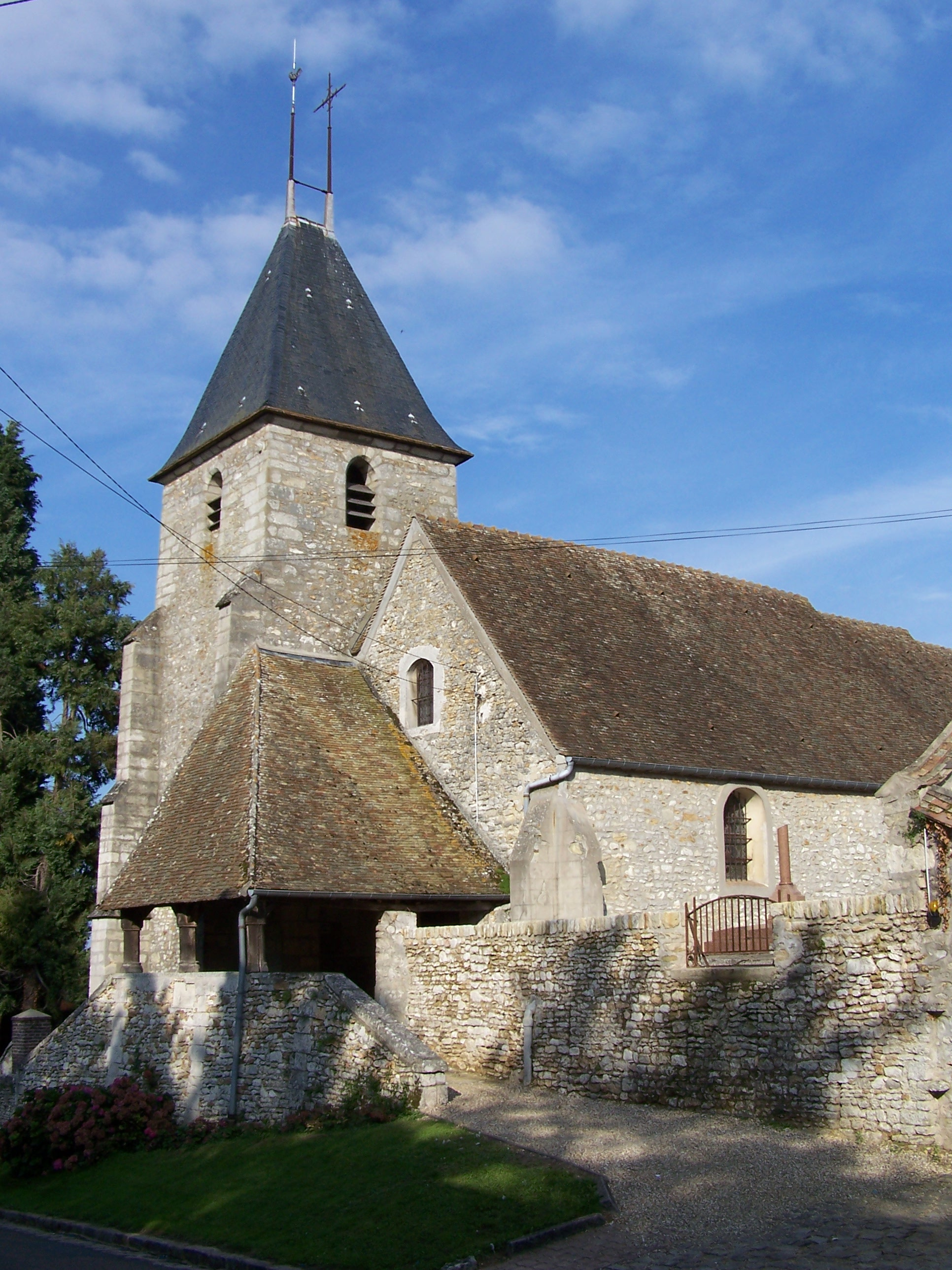 Church of Goupillières (Yvelines, France)